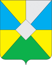 Coats of arms of Novotamanskoye